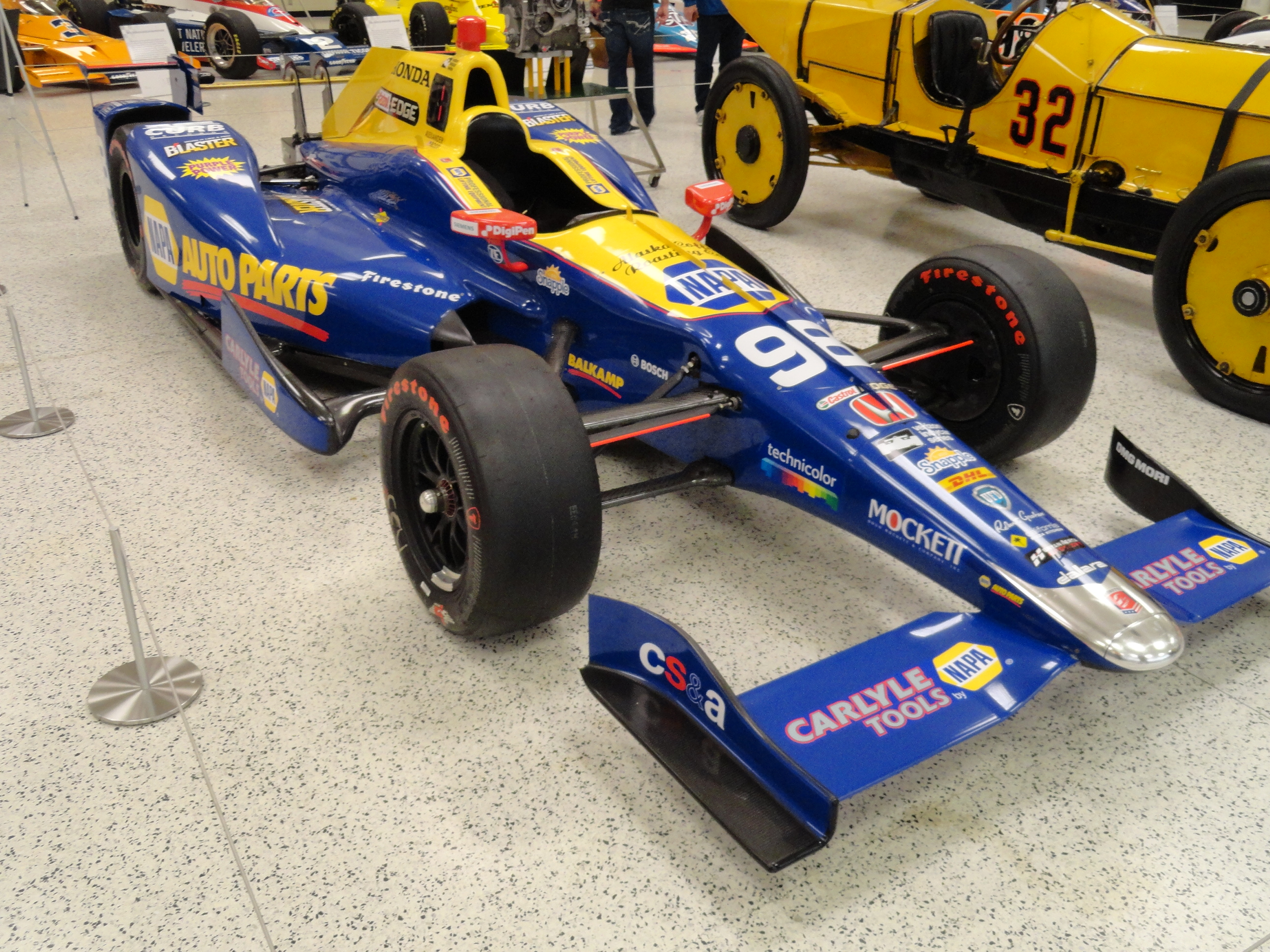 Dallara DW12 of Andretti Herta Autosport driven by Alexander Rossi to win the 2016 Indianapolis 500, in an exhibition at the Indianapolis Motor Speedway Museum